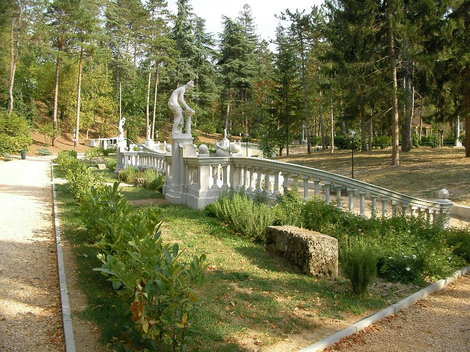 The park of the Thermal station of Fratta Terme